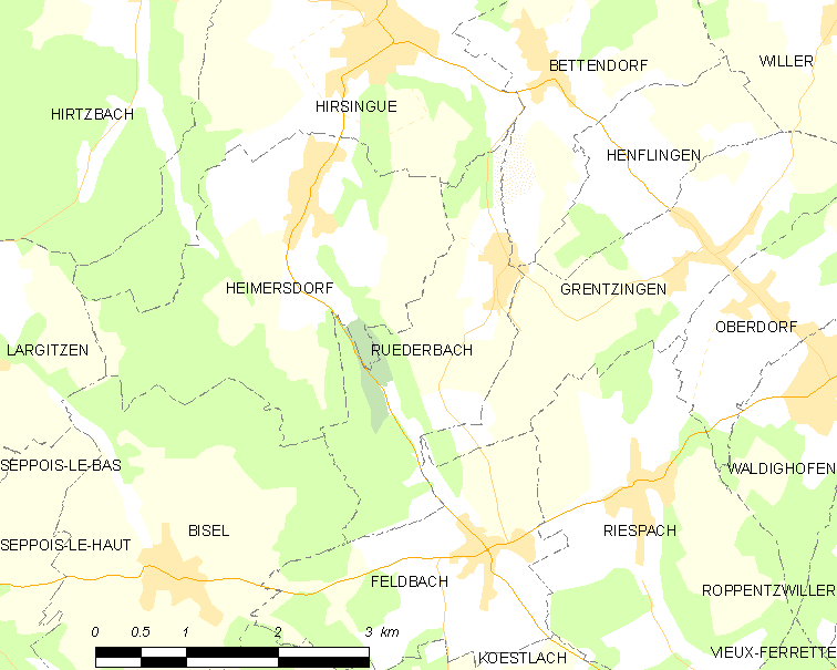 Map of French municipality